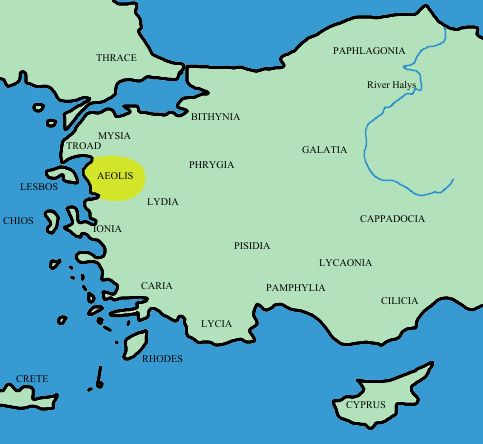 map of Aeolis made by me